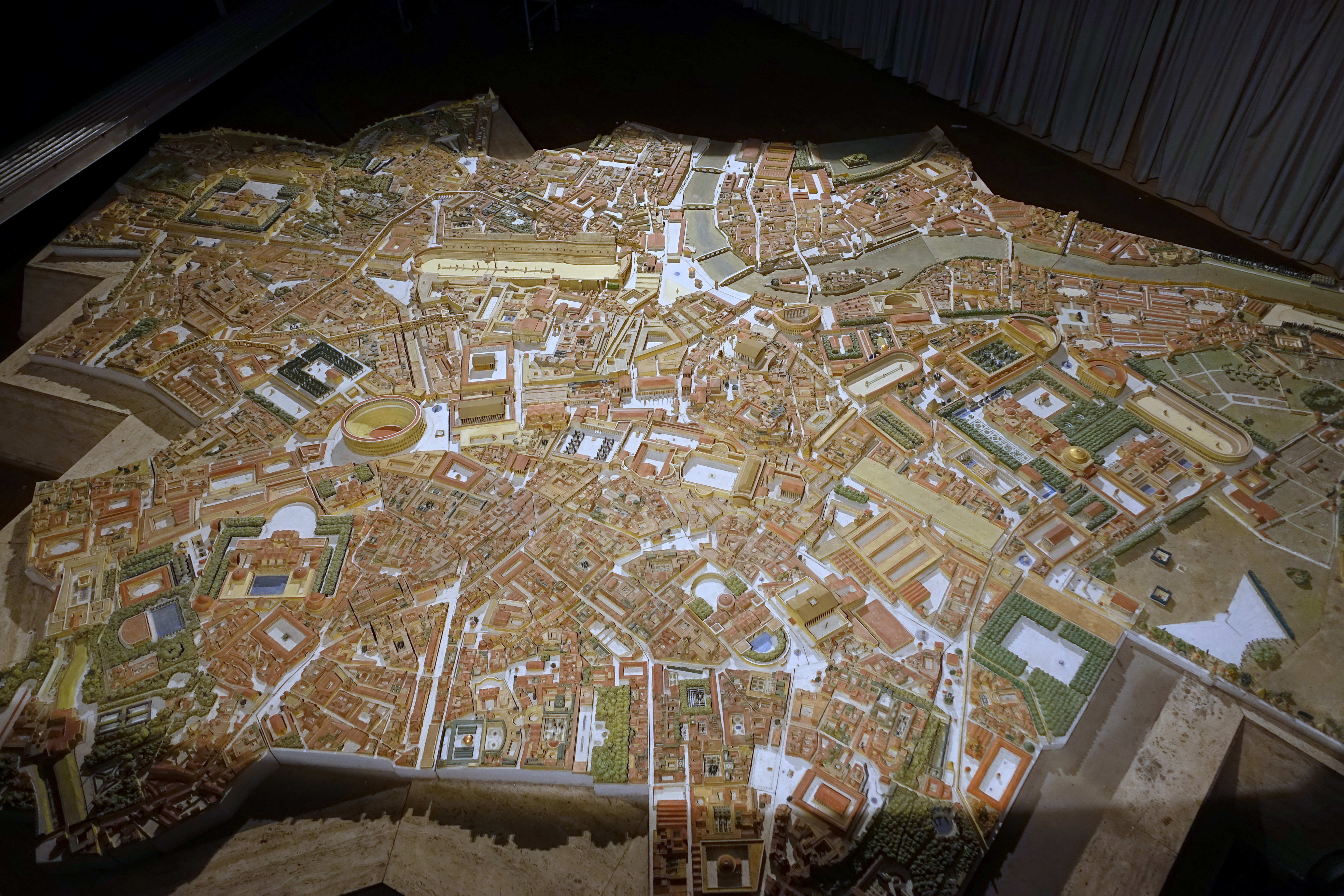 Exhibit in the Cinquantenaire Museum - Brussels, Belgium.